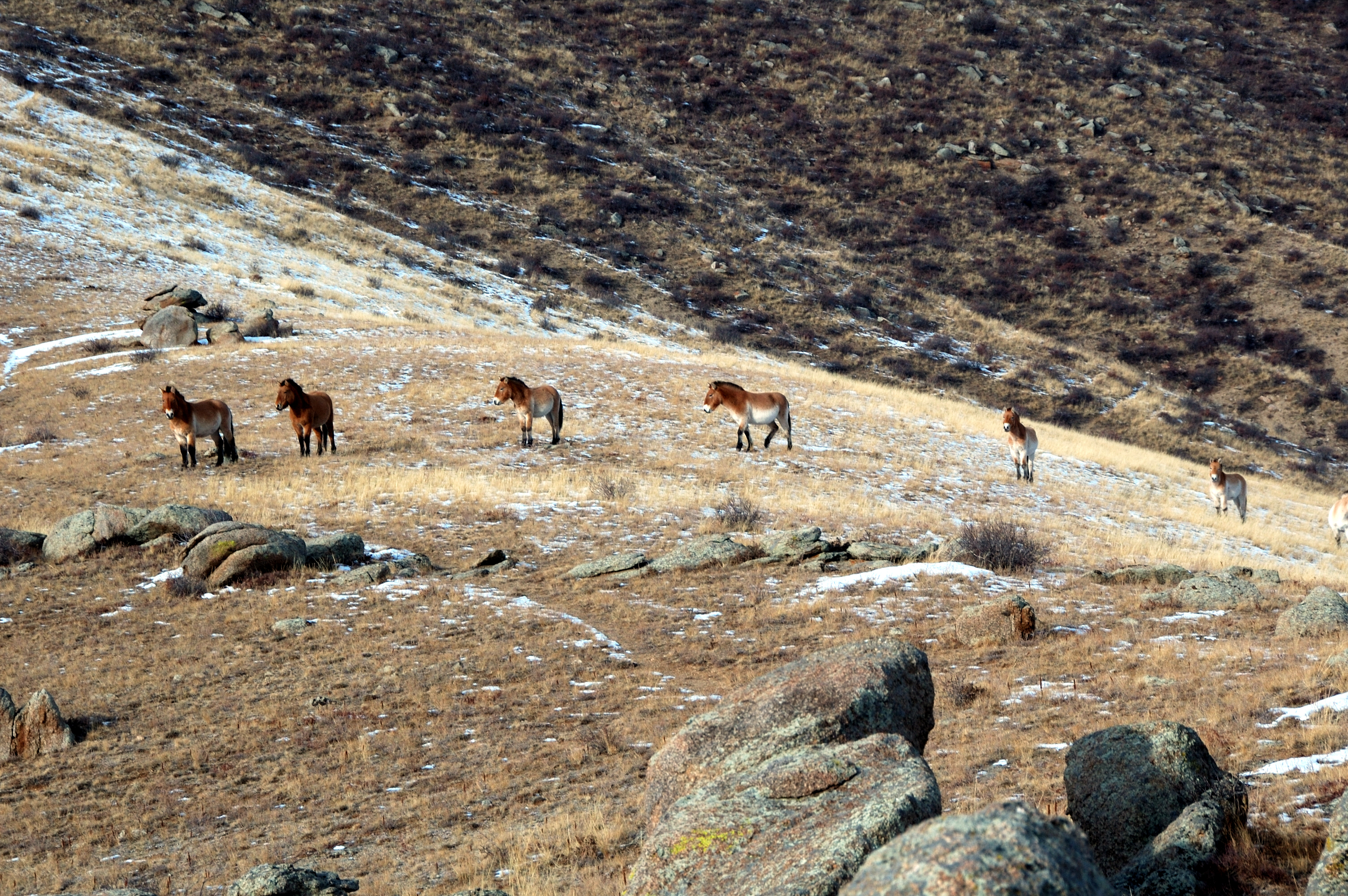 Photo of a herd of Przewalski horse in Hustai National Park, Mongolia. Photo by Kelsey Rideout (C) 2006